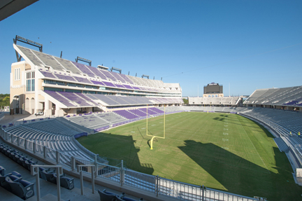 AGCS interior view